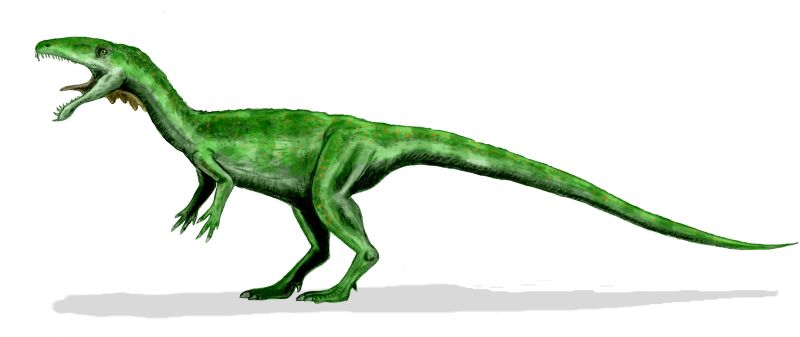 Masiakasaurus knopfleri, a small noasaurid theropod from the Late Cretaceous of Madagascar, pencil drawing, based on [1]